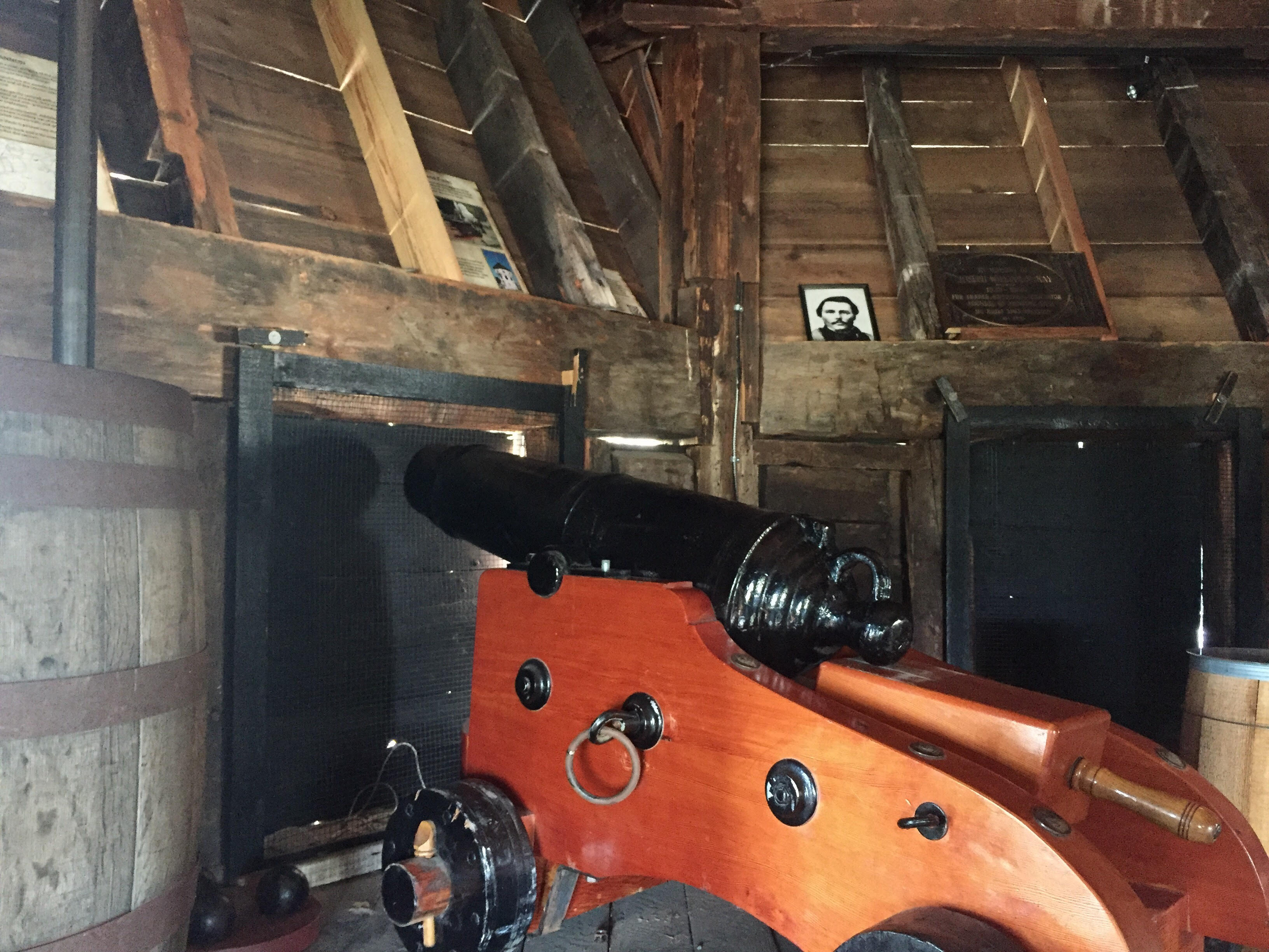 The 4-pound carronade on display at the Bastion.